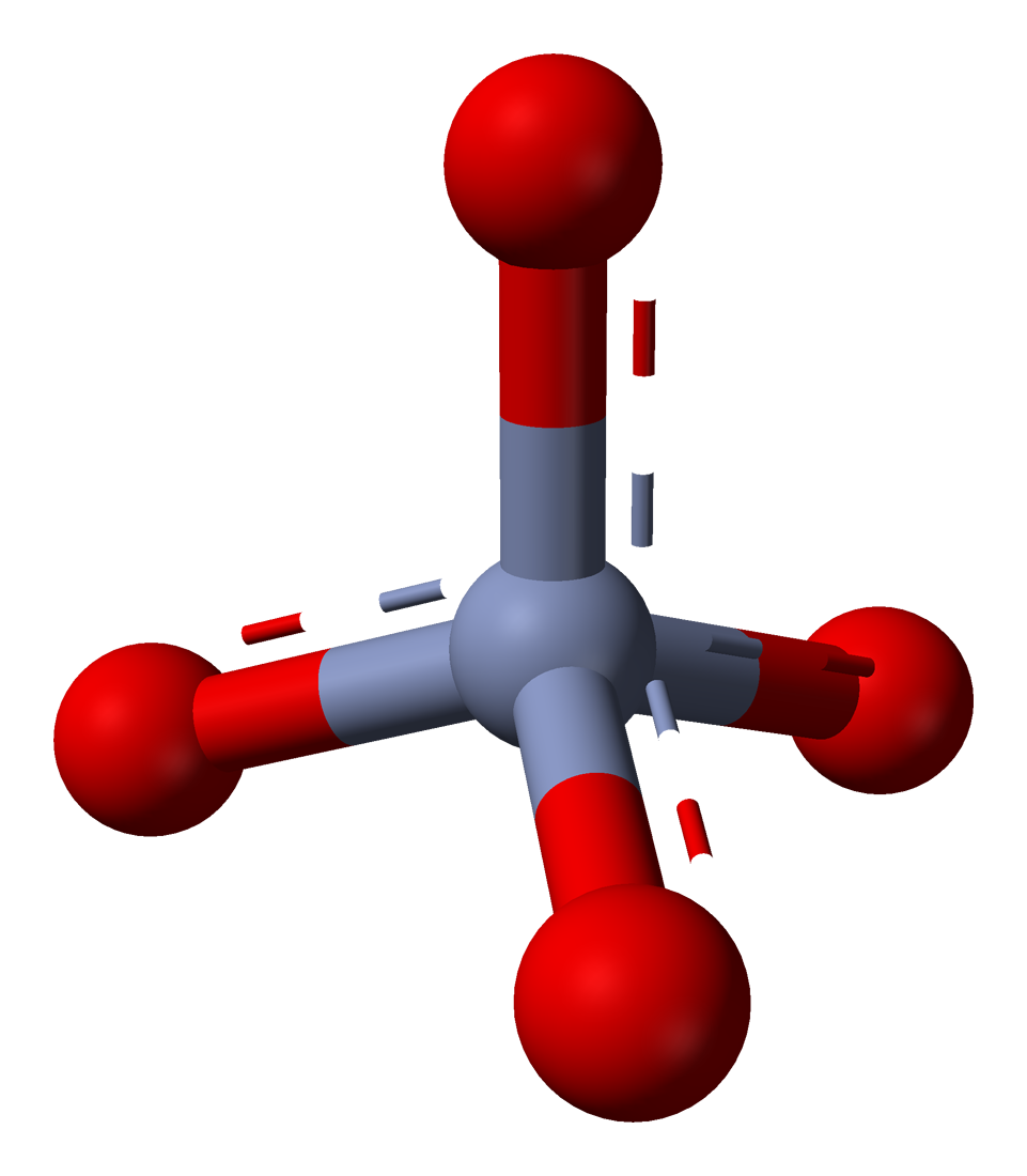 Ball-and-stick model of the chromate ion, CrO42−